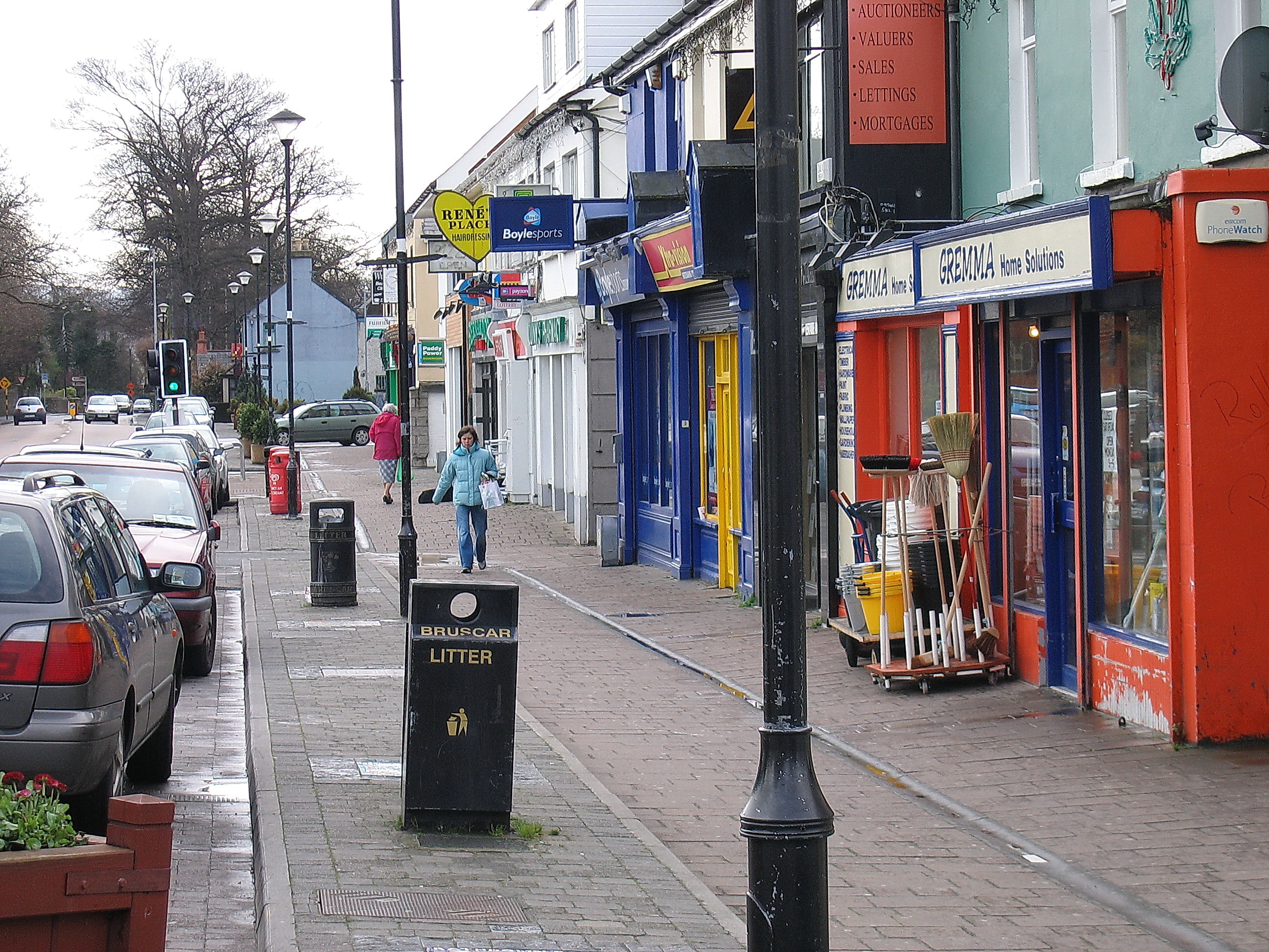 Shankill, County Dublin, near to Shankill and Loughlinstown, Dublin, Ireland. Village Main Street